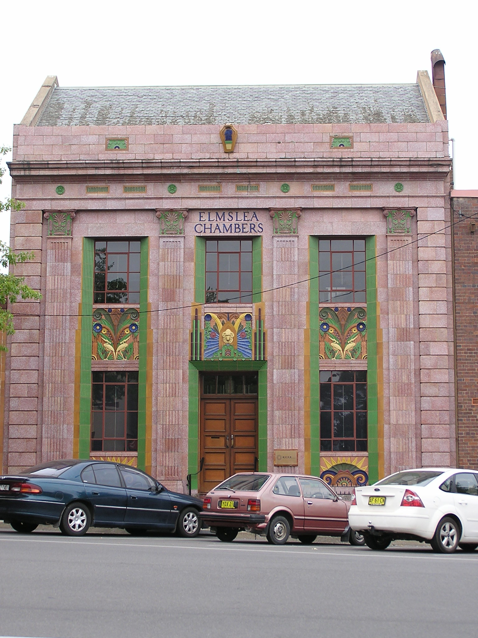 Elmslea Chambers in Goulburn, New South Wales, Australia - built in 1933, it was one of the first buildings in Australia to use coloured polychrome terracotta in its façade which features a fine relief of birds, flowers, leaves and typical Art Deco sunbursts under the windows. further info at Photo taken by AYArktos February 2005